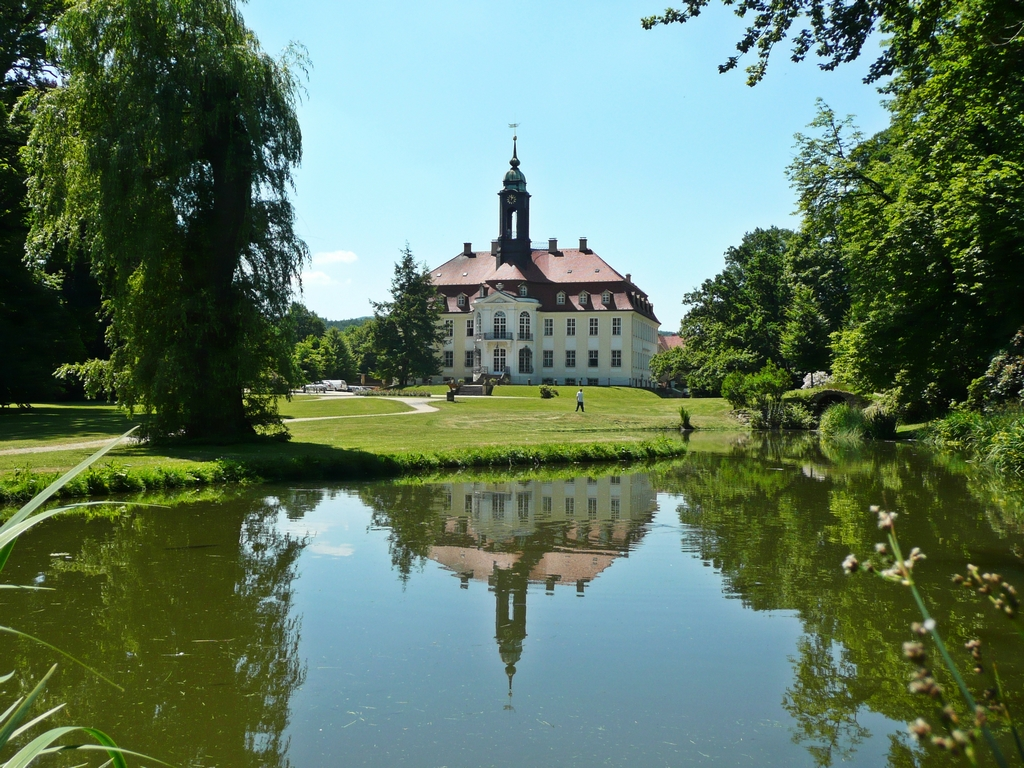 Reinhardtsgrimma, Reinhardtsgrimma Palace, cultural heritage monument built 1765/67.